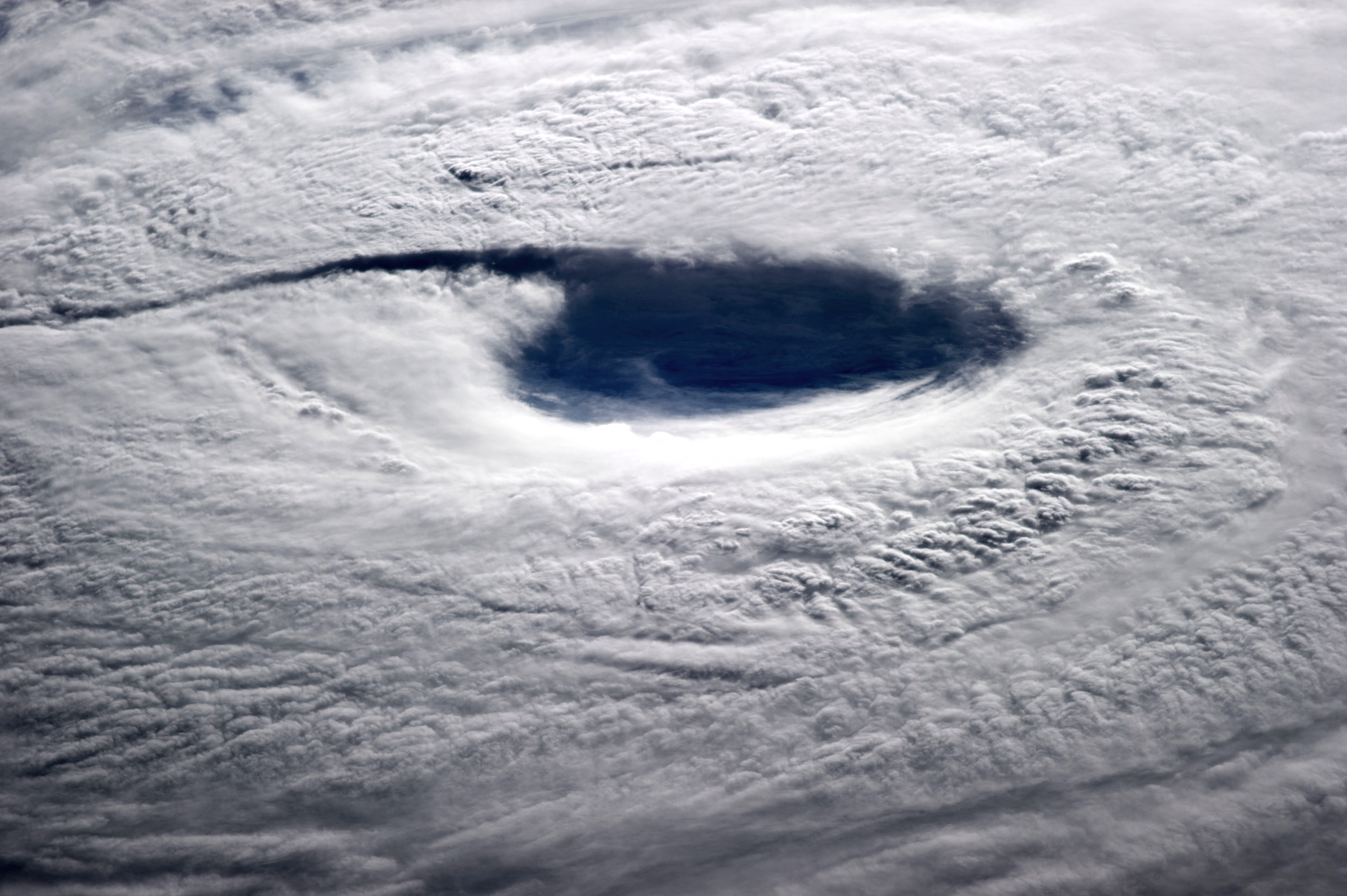 Shaped eye of super Typhoon Neoguri photographed on 7 July 2014 by United States astronaut Reid Wiseman from the International Space Station.